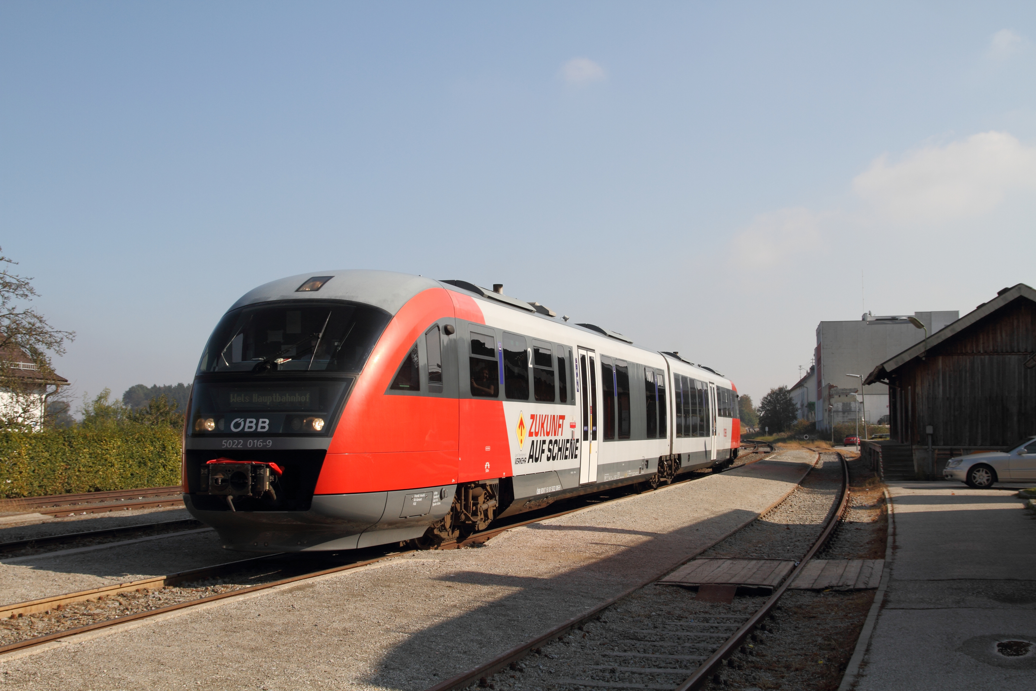 ÖBB 5022 016-9 at Sattledt station.